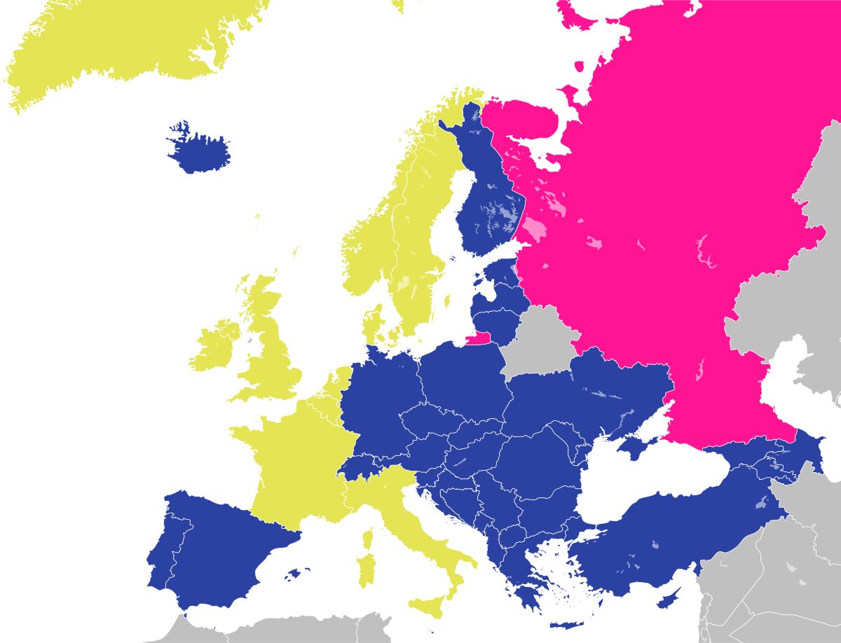 Map of the Council of Europe. Founders Later members